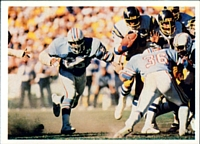 A football card from the 1986 Jeno's Pizza NFL football card stickers set of Houston Oilers defensive end Elvin Bethea (middle) and safety Carter Hartwig (right) in a defensive play against the San Diego Chargers in the 1979 AFC Divisional Playoff Game on December 29, 1979. The card is numbered #44 in the set. The back of the card reads: OILERS GANG UP ON THE CHARGERS Houston defensive back Carter Hartwig (36) and end Elvin Bethea (65) surround San Diego running back Lydell Mitchell, as the oilers beat the Chargers 17-14 in a 1979 AFC Divisional Playoff Game. The Houston defense intercepted five passes and also held the Chargers to just 63 yards on the ground.